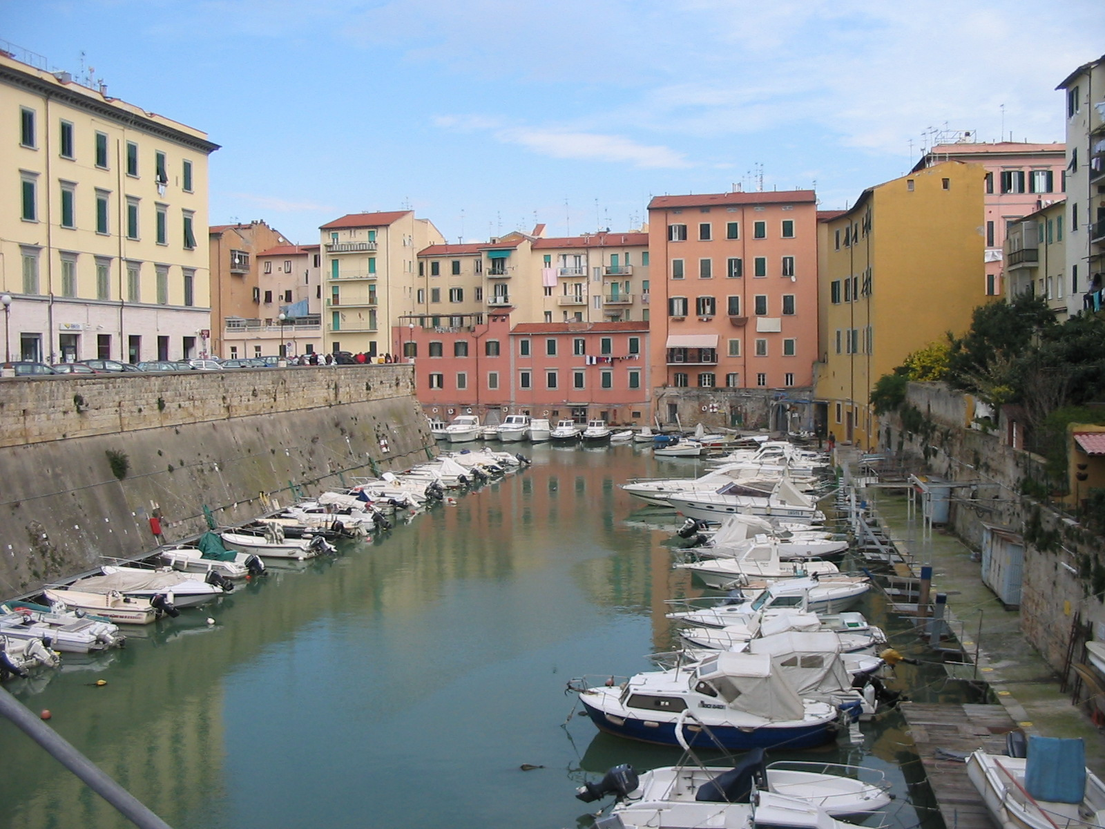 A image from the quarter near "Piazza della Repubblica" in Livorno.